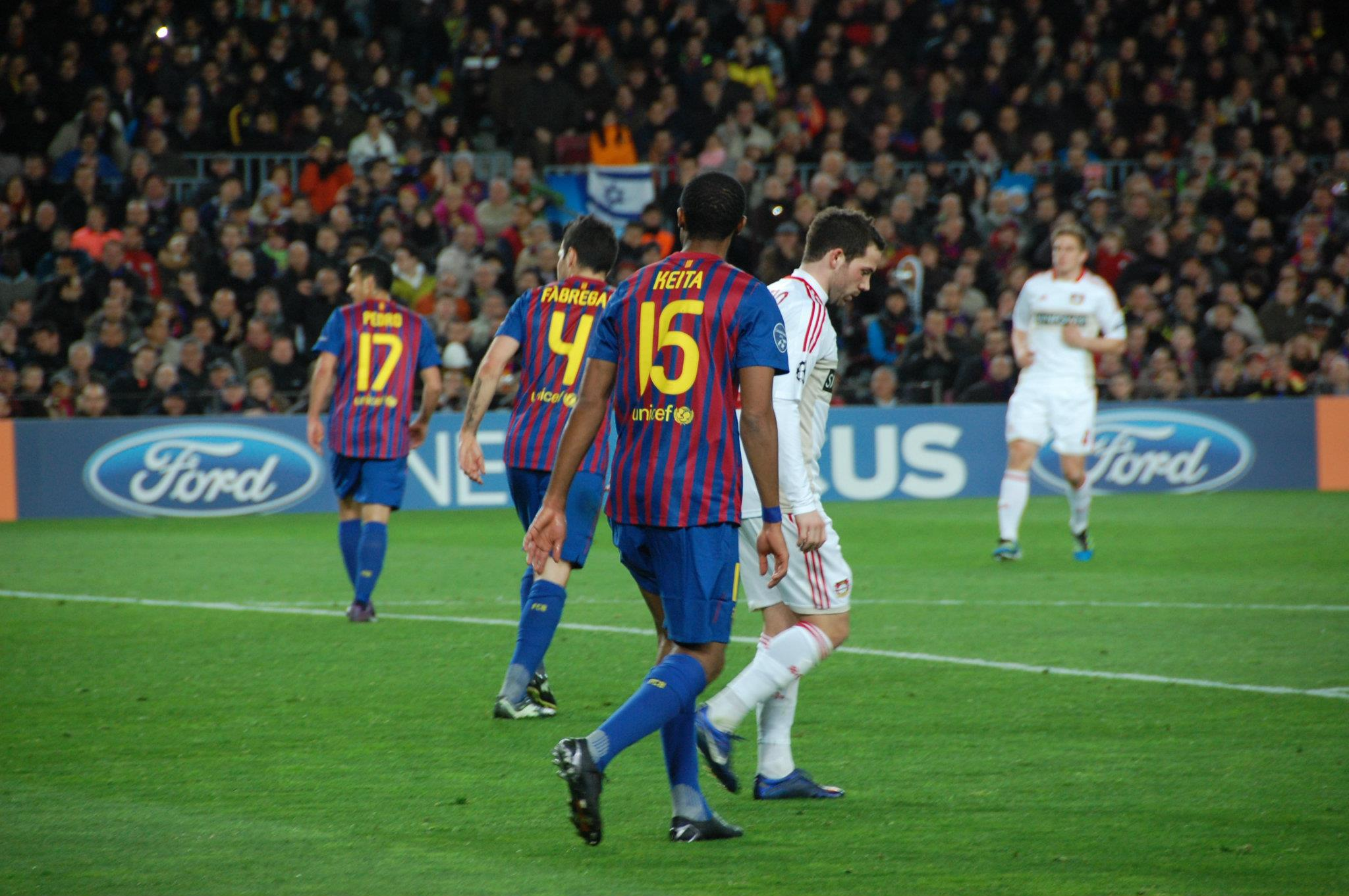 FC Barcelona - Bayer 04 Leverkusen, 1/8 Final UEFA Champions League, Season 2011/2012